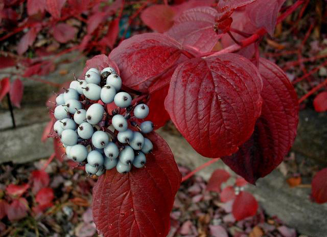 Cornus alba